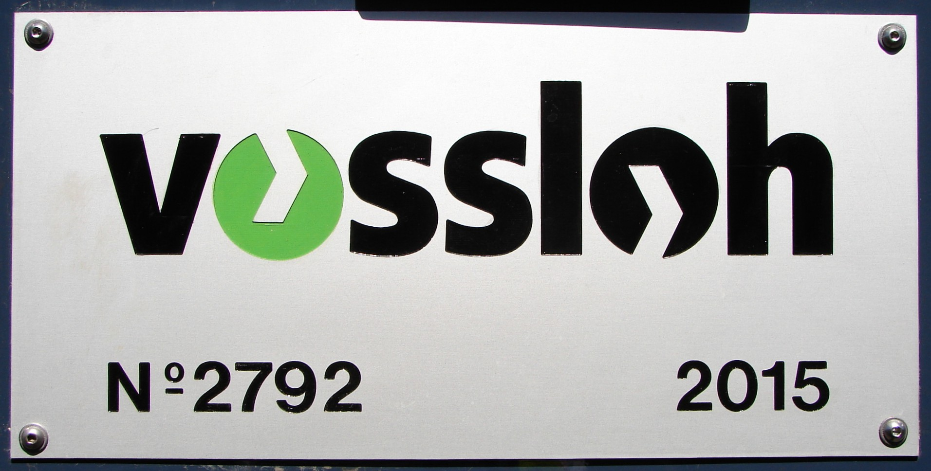 Builder's plate on PRASA Class Afro4000 no. 4012